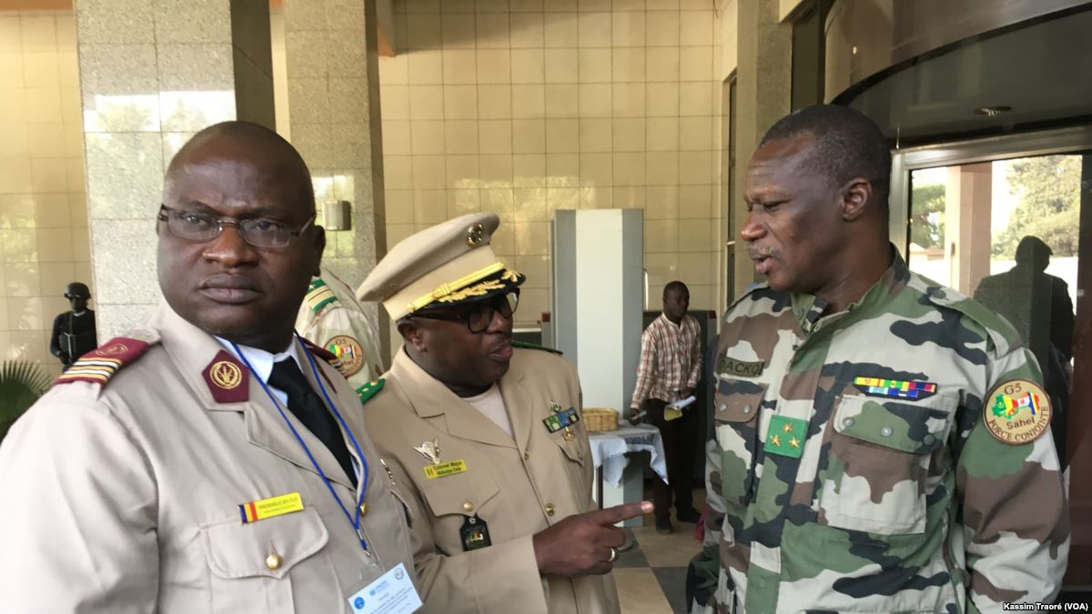 General Didier Dacko, Malian commander of the G5 Sahel, with a Chadian and a Malian officers